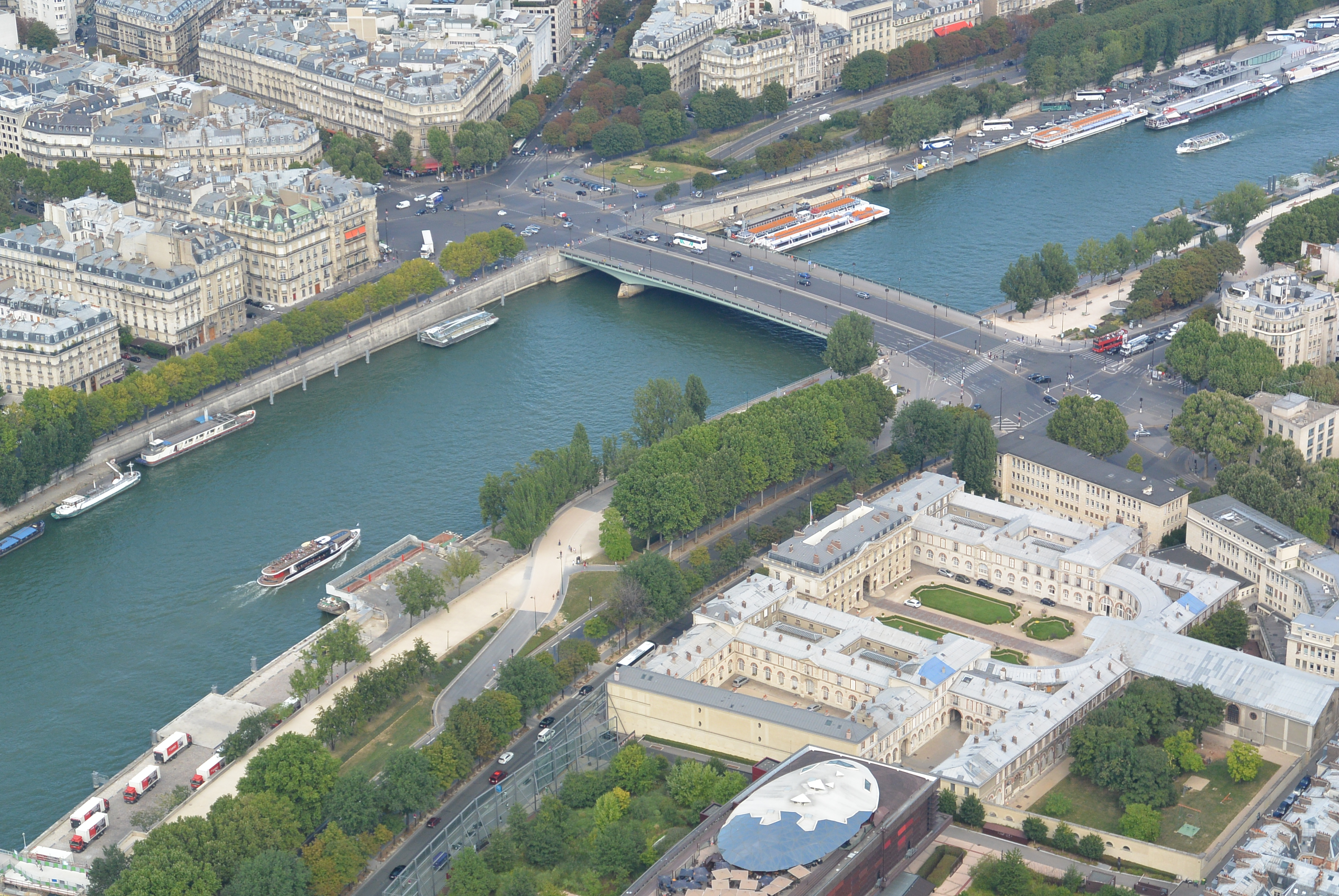 Pont de l'Alma and Palais de l'Alma from the Eiffel Tower.